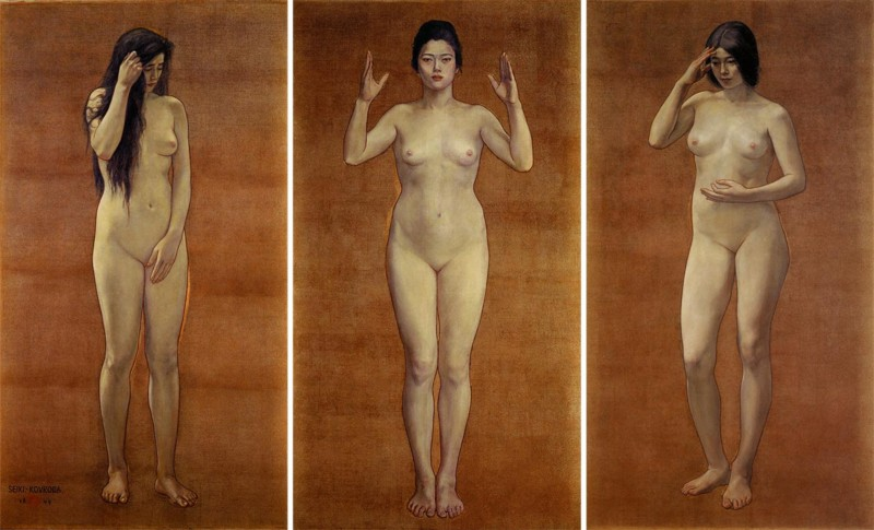 Kuroda Seiki, Triptych: Wisdom Impression Sentiment, Kuroda Memorial Hall, Tokyo.